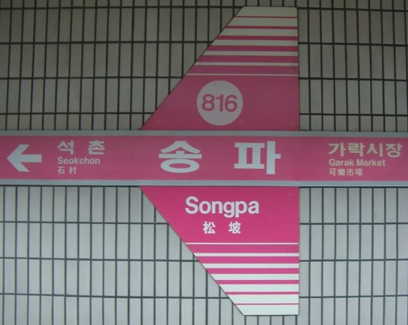 Songpa Station